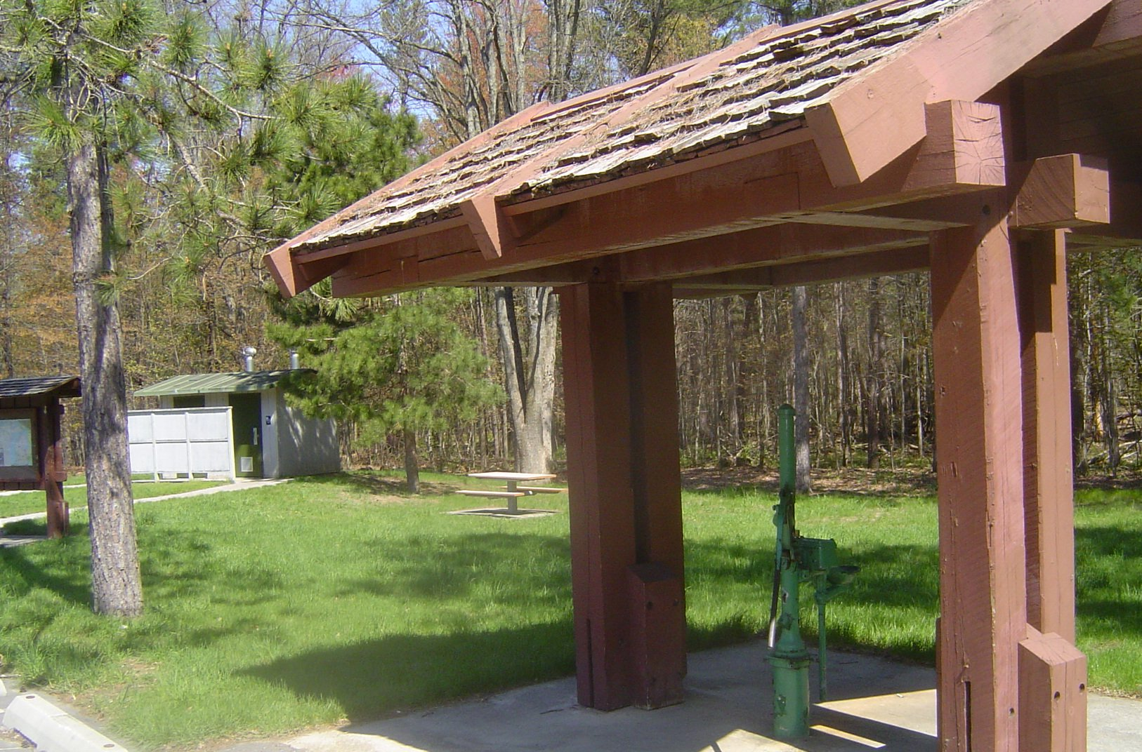 Roadside park with facilities, including a piston hand water pump, in Michigan